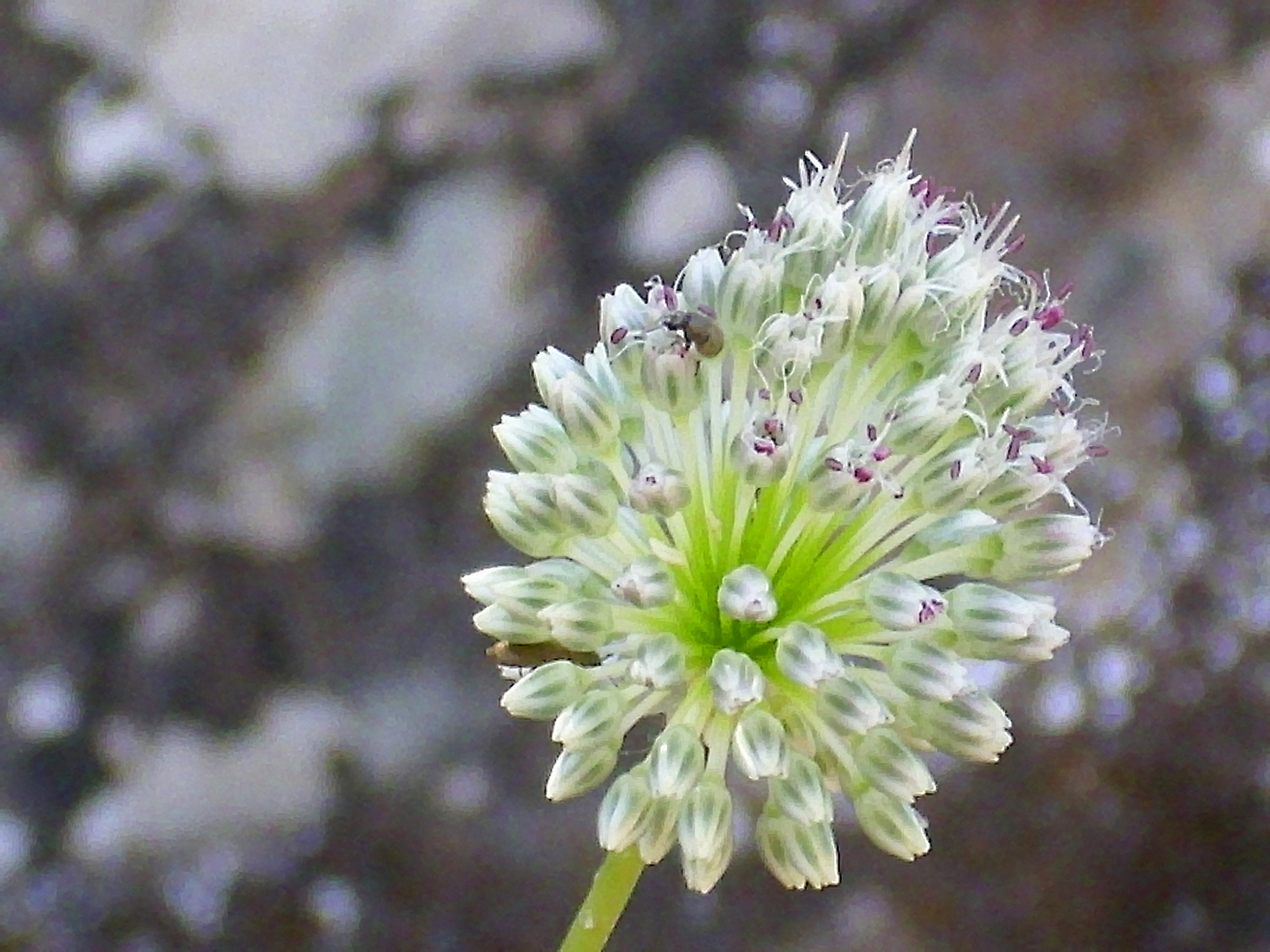 Allium guttatum subsp. sardoum close up, Sierra Madrona, Spain